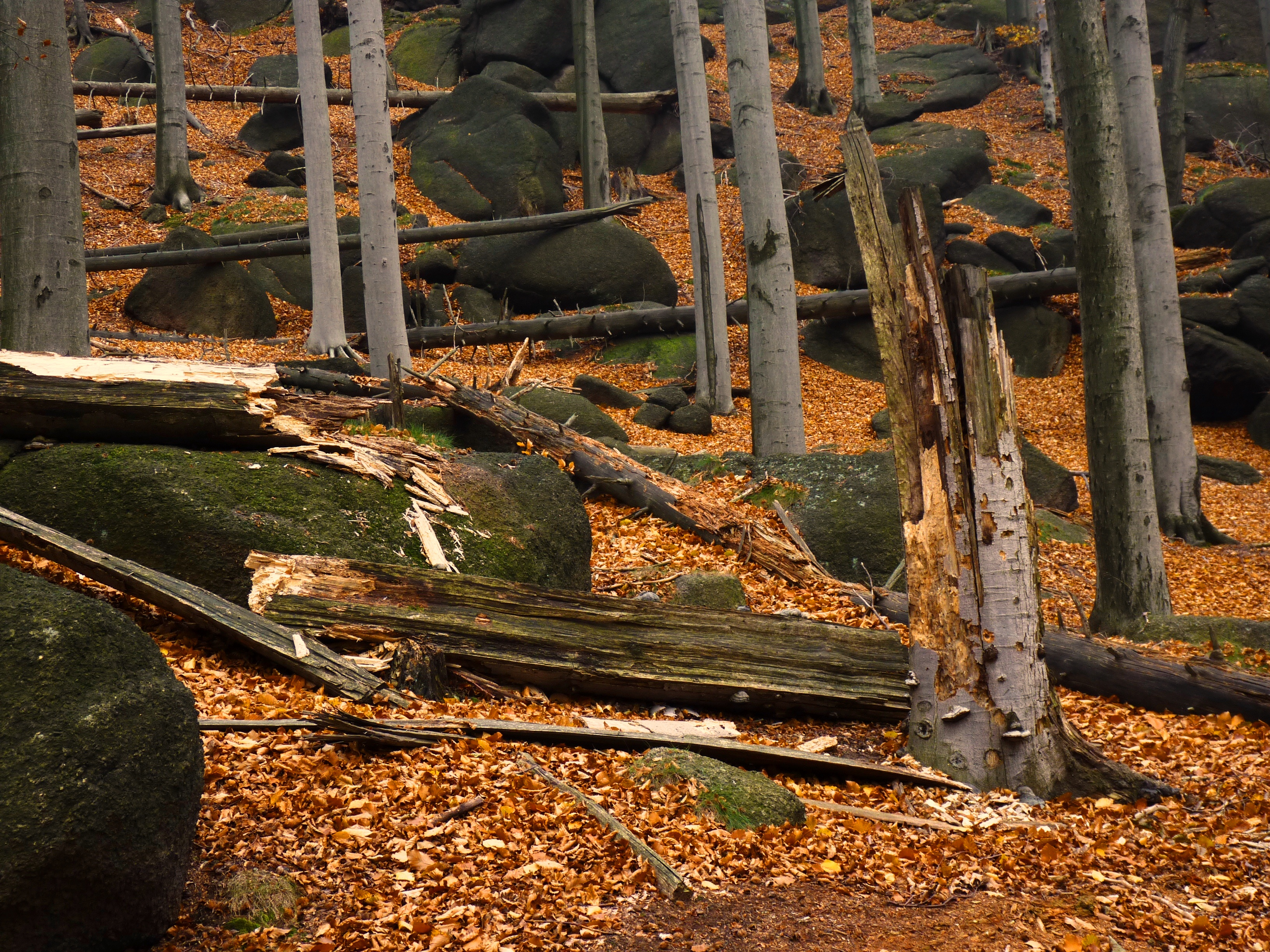 mrtvé dřevo